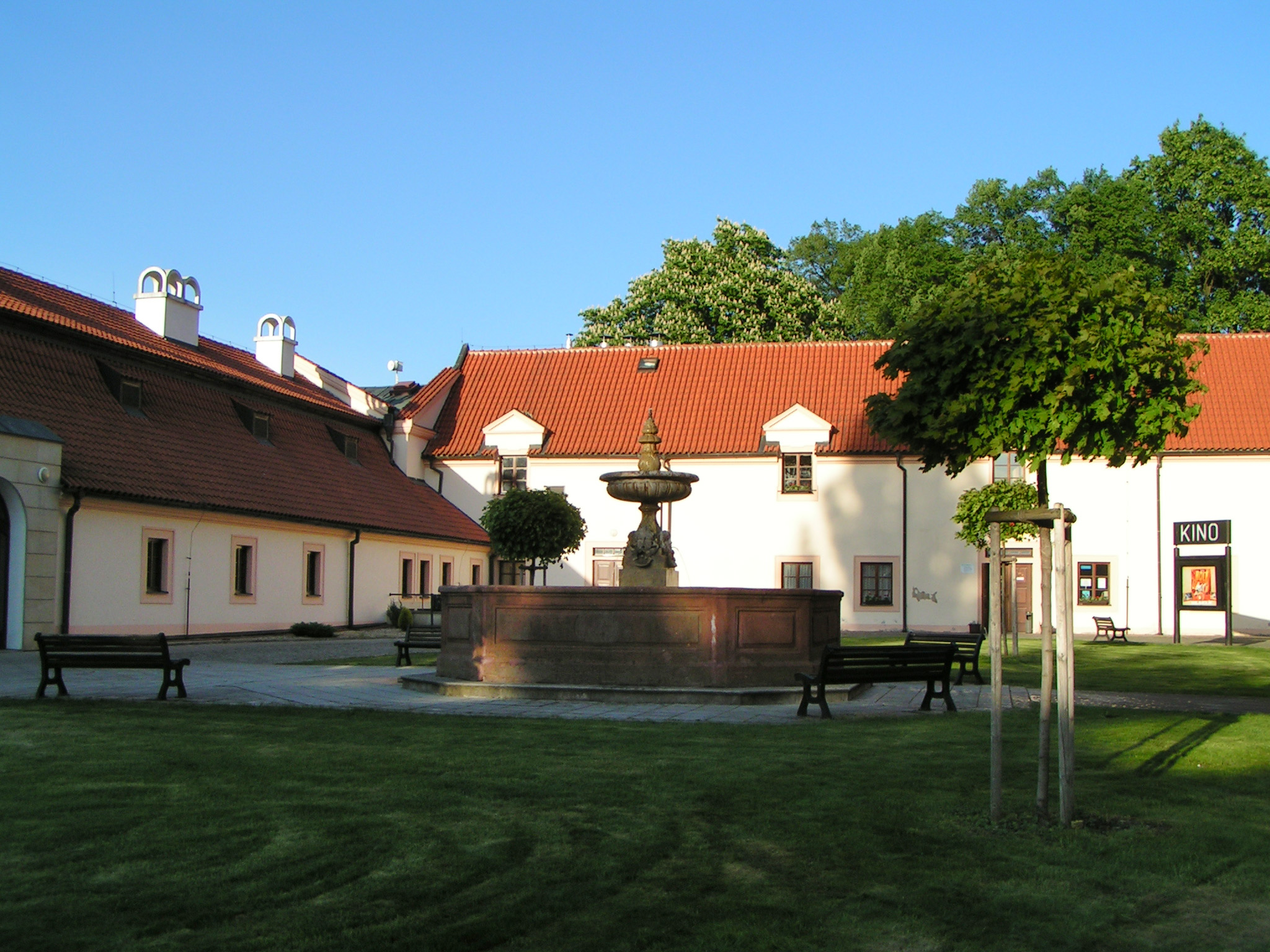 Poděbrady Castle courtyard, Poděbrady, Czech Republic.